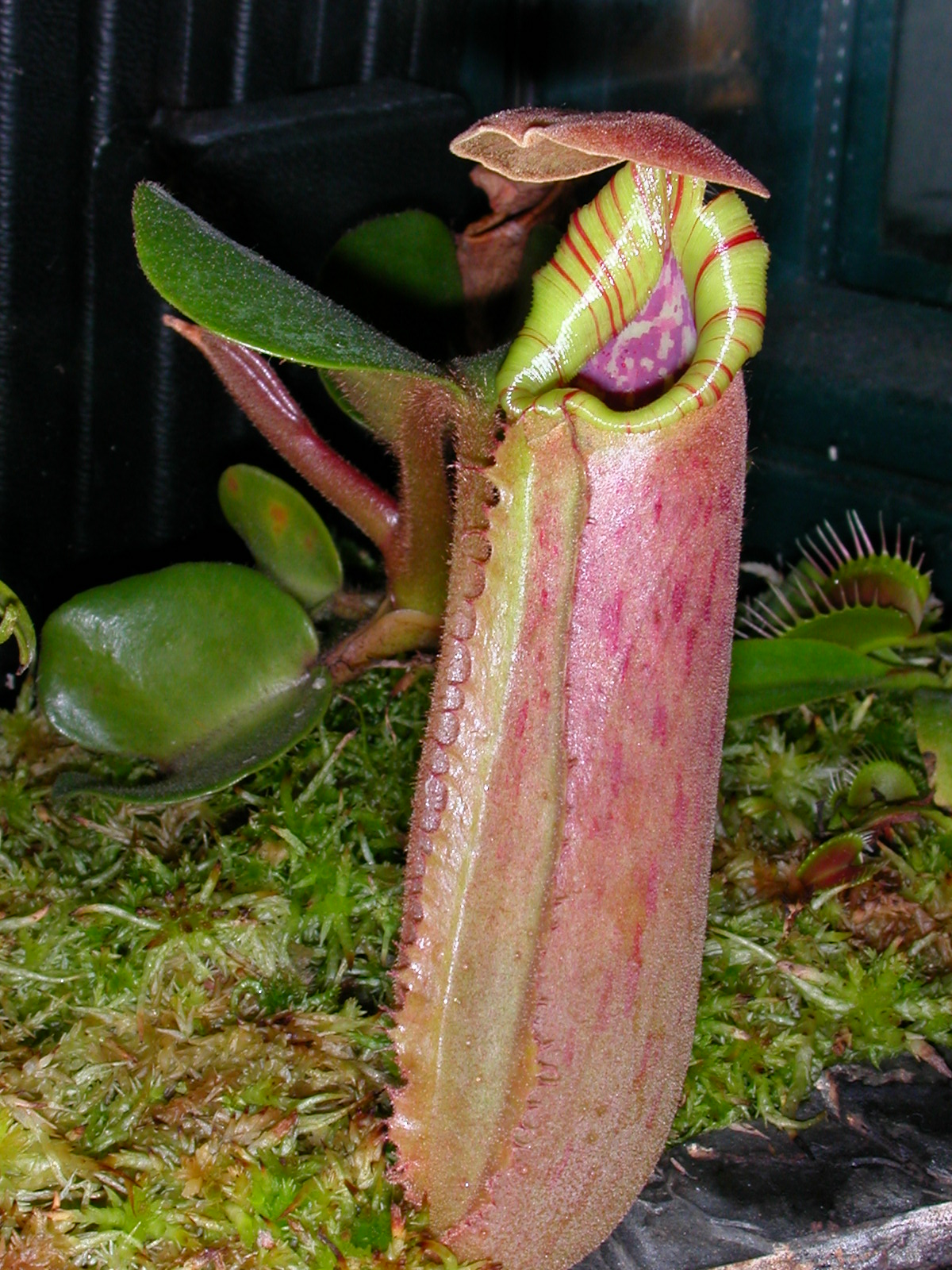 The author licensed this picture in a letter to the uploader as follows: "Ich lizensiere die Bilder [..] unter der GNU-FDL." (Translation: "I license the pictures [..] as GNU-FDL.") Pitcher of Nepenthes truncata